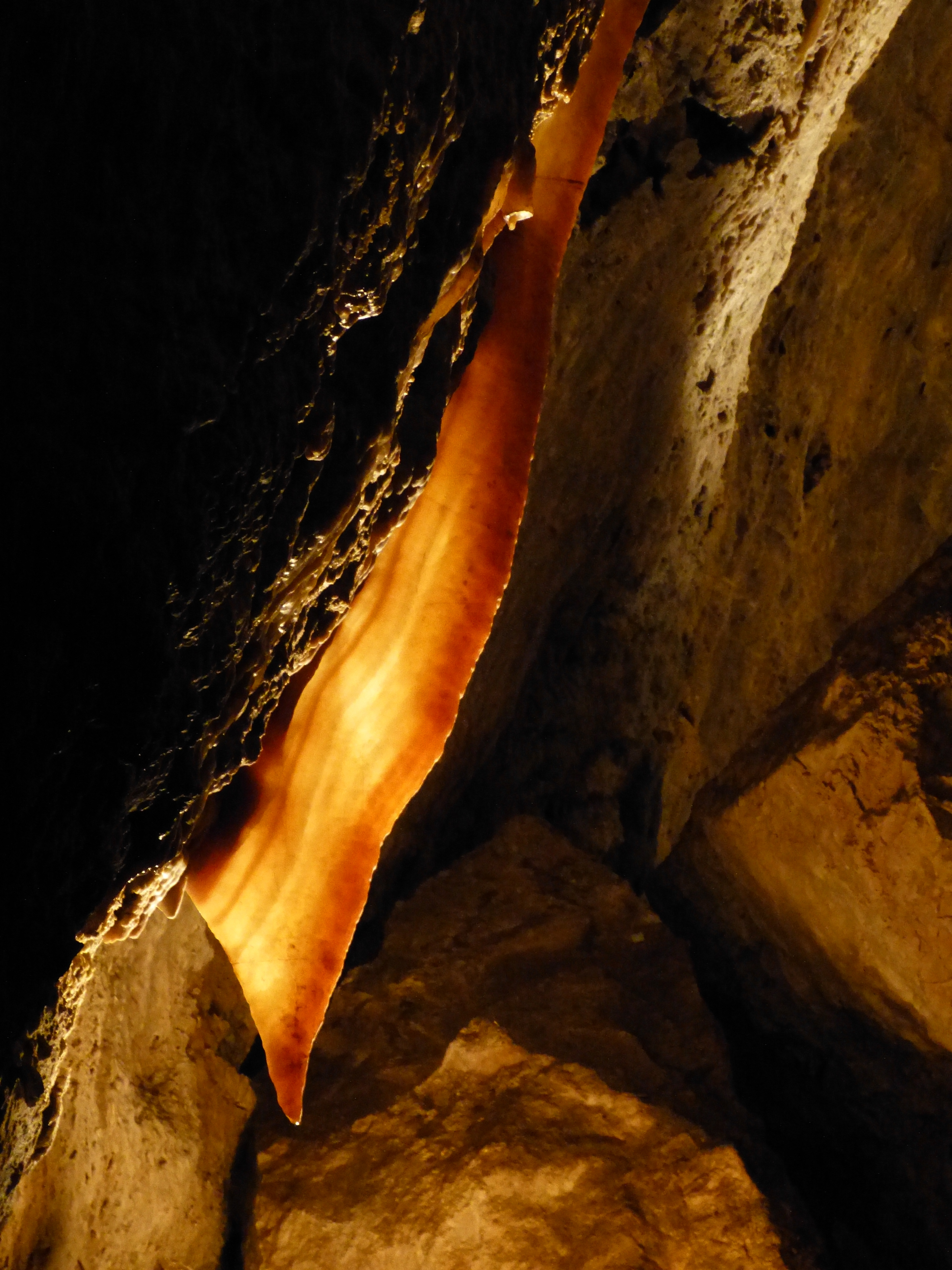 Bacon Strip in the Jewel Cave in South Dakota.